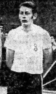 Vladimir Cvetković is a Serbian former basketball player and sports administrator